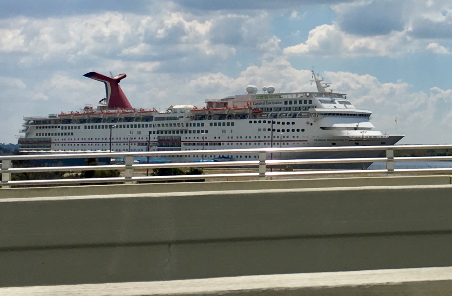 Carnival Fascination as shown docked in Jacksonville on September 28, 2017. The ship once sailed year-round cruises from Jacksonville from 2008 to 2016. However, the ship returned to Jacksonville to substitute for the Carnival Elation due to Hurricane Irma delaying the completion of the planned dry-dock and with Hurricane Maria forcing the closure of the Port of San Juan.